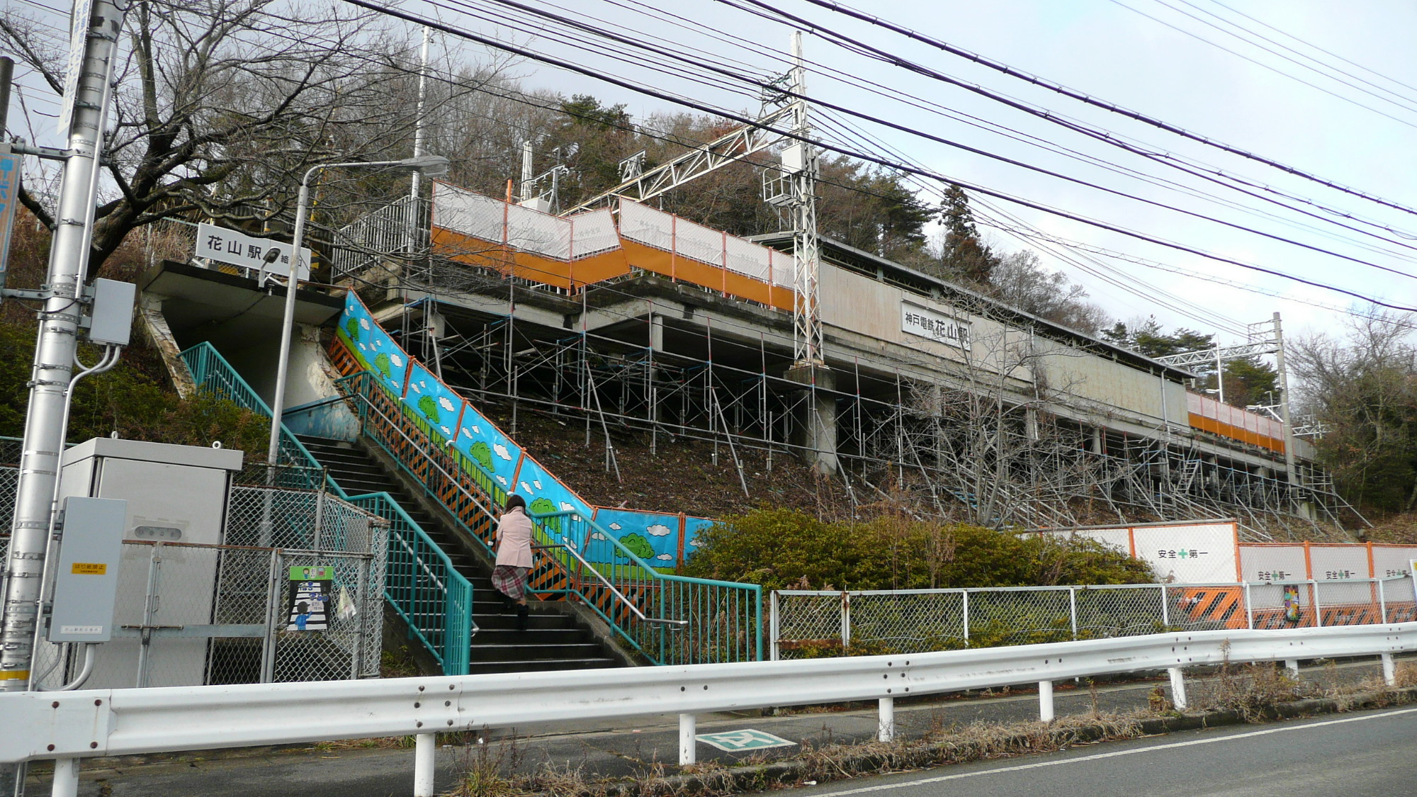 Kobe Electric Railway Hanayama Station south entrance